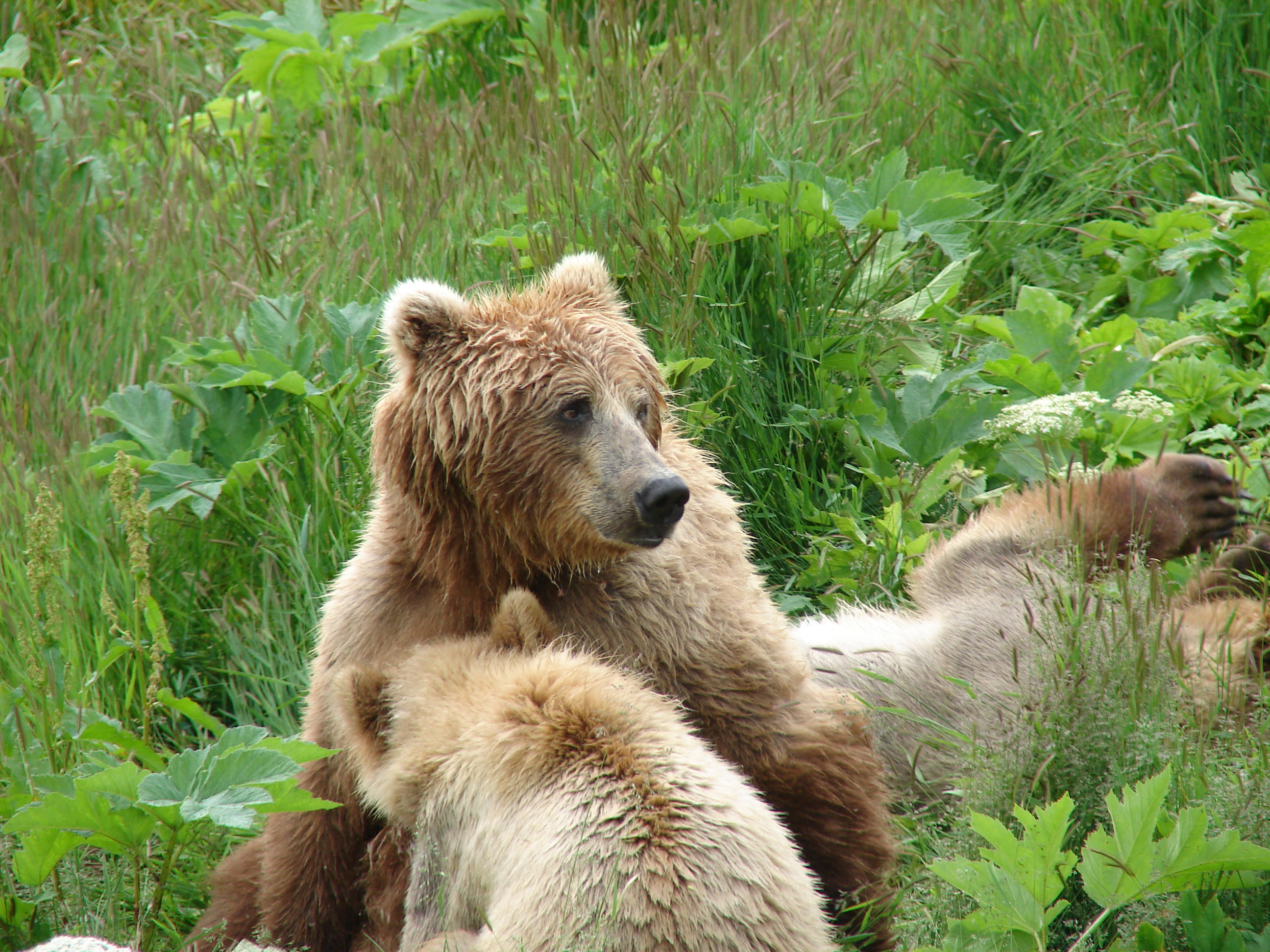 Larry Van Daele, self-made